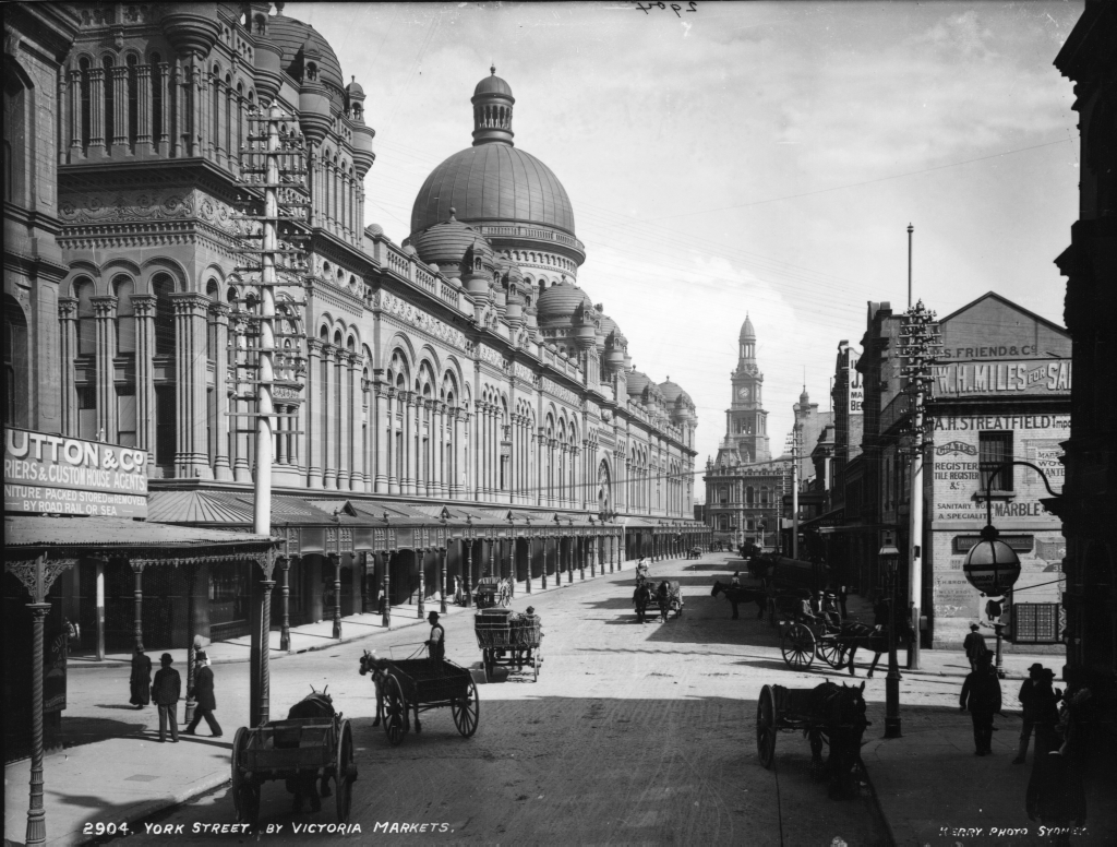 'Sydney City' Pictures from The Powerhouse Museum This file was posted to Flickr by The Powerhouse Museum (See the archive of their website for further information). Many thanks to the Powerhouse Museum for helping release this wonderful material. This tag does not indicate the copyright status of the attached work. A normal copyright tag is still required. See Commons:Licensing for more information.